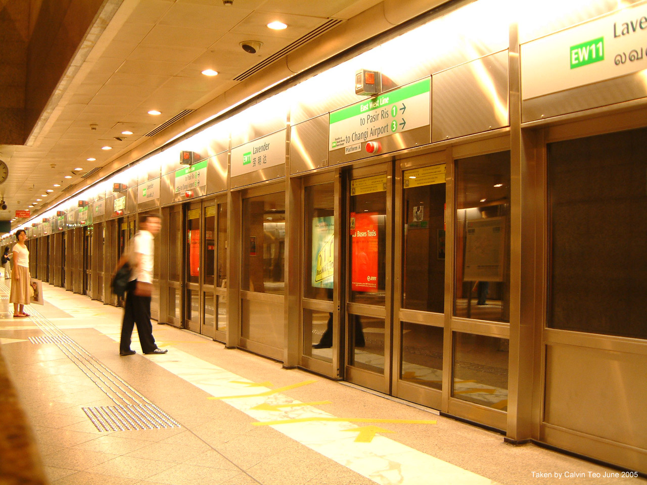 The platform level of Lavender MRT Station in Singapore.